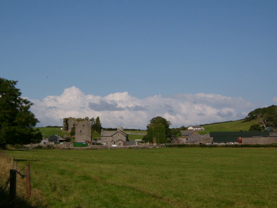 N.Whalley